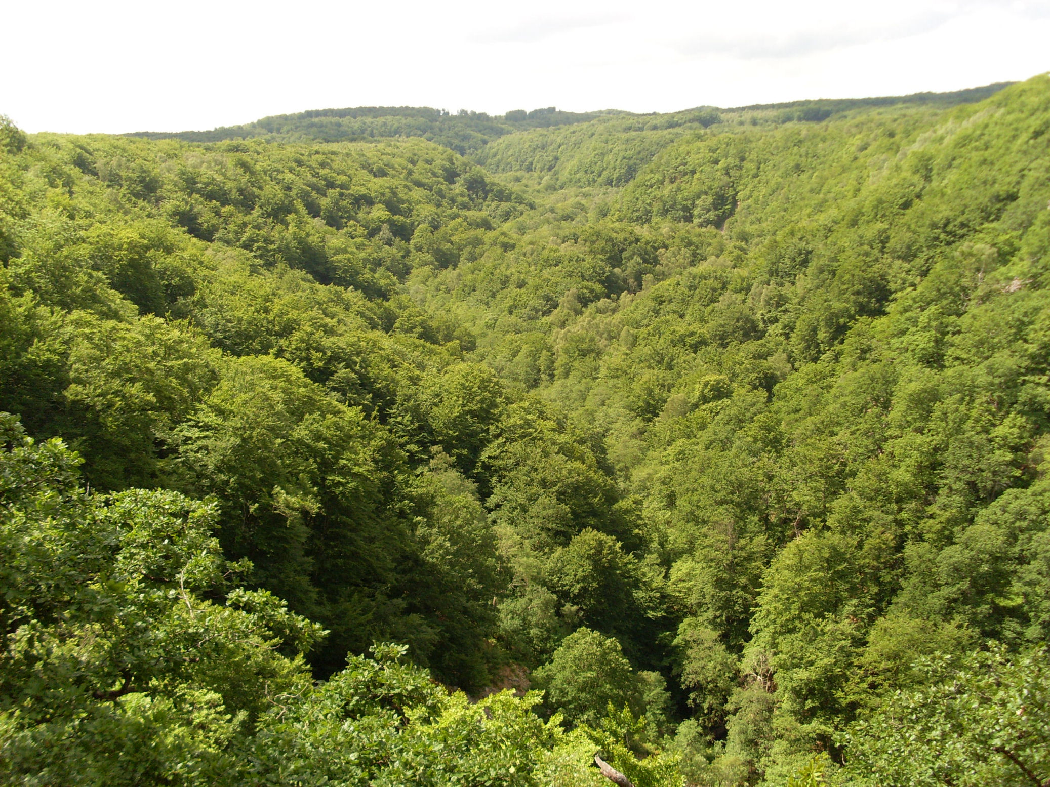 Söderåsens national park - picture taken from Hjortsprånget, Skäralid, Skåne, Sweden.